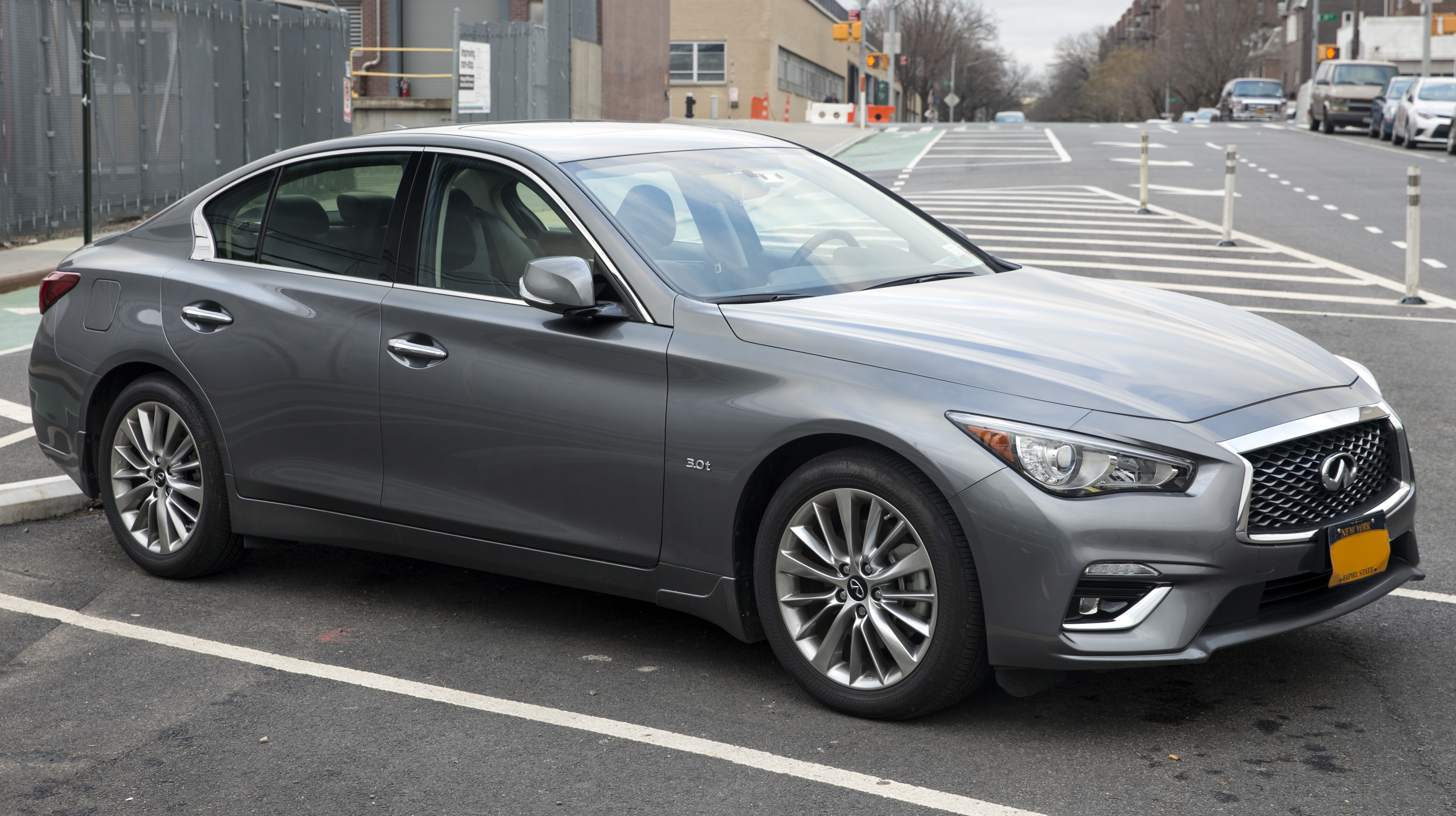 A 2019 Infiniti Q50 3.0t Luxe AWD in Graphite Shadow.